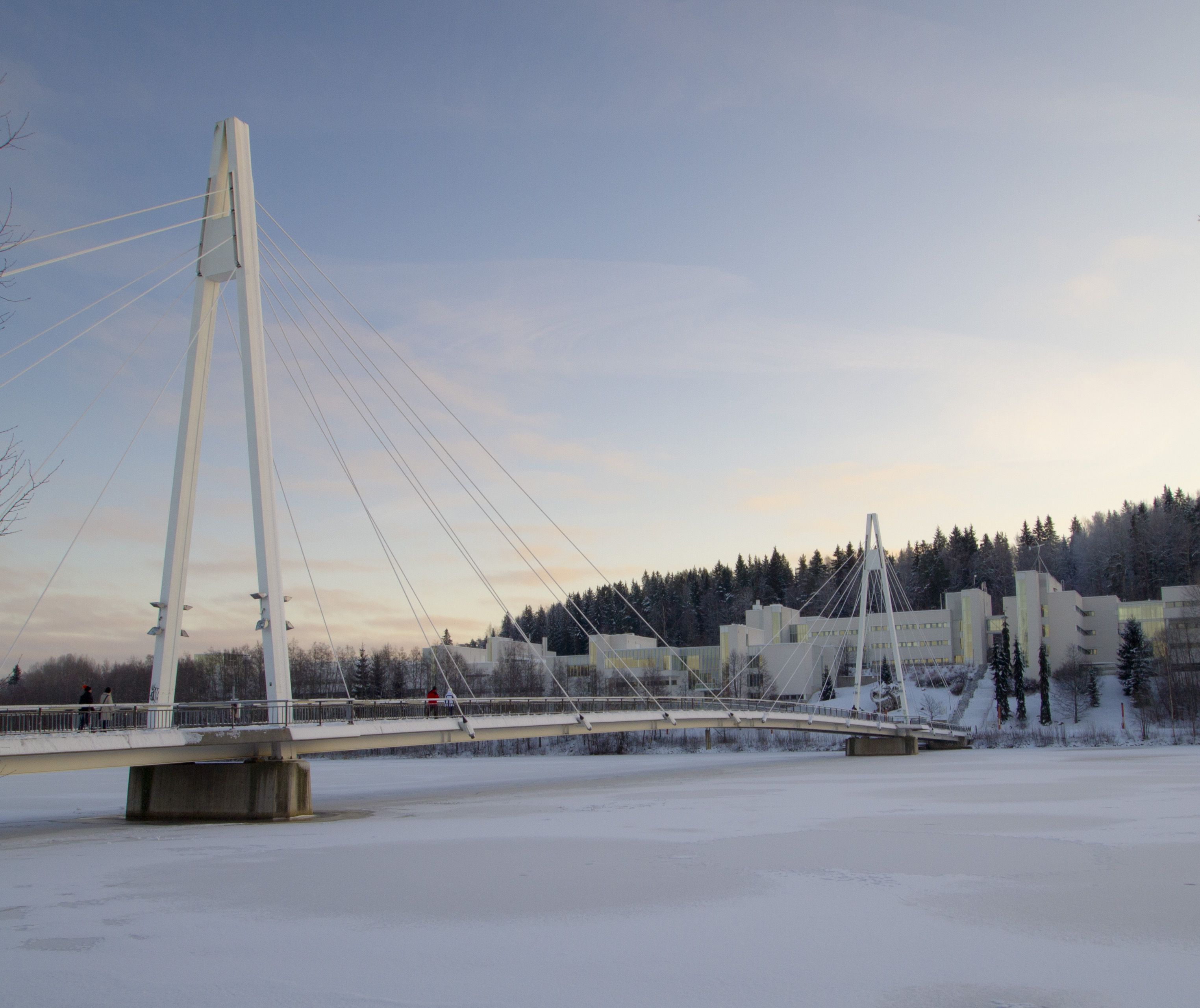 Ylistö Bridge in winter 2012. View from a beach of Mattilanniemi. This photograph was taken with an Olympus E-PL1